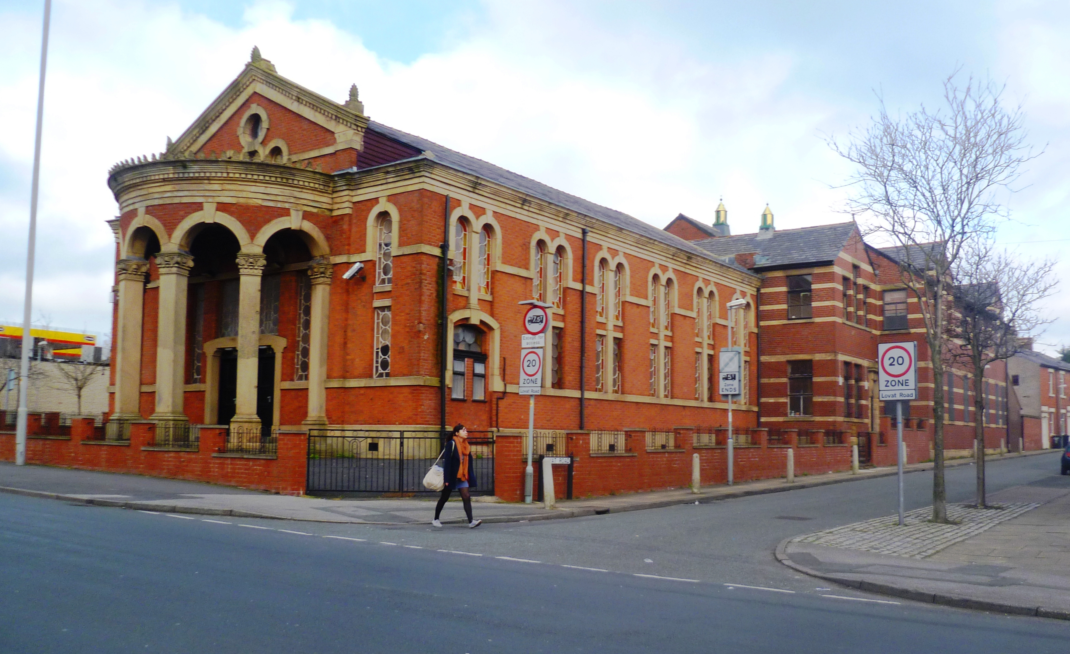 Former Moor Park Methodist chapel, 4–36 Garstang Road, Preston, Lancashire, seen from the southwest